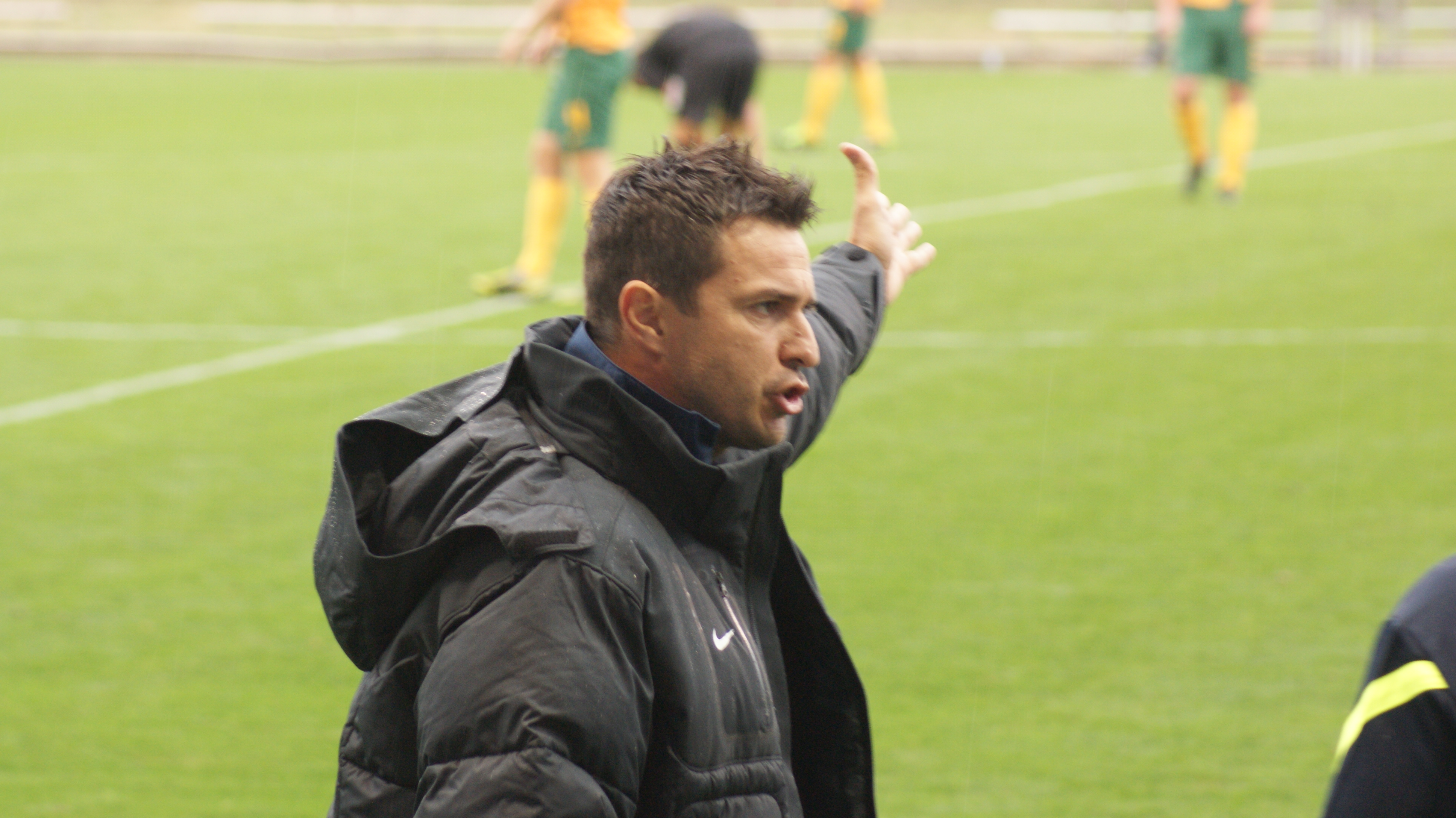 Young Socceroos vs New Zealand